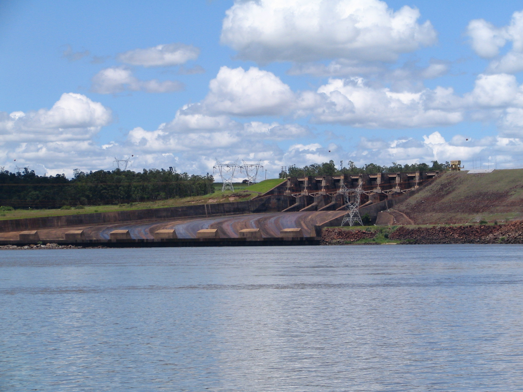 Capivara hydroeletric power plant, at the Paranapanema River, Brazil.